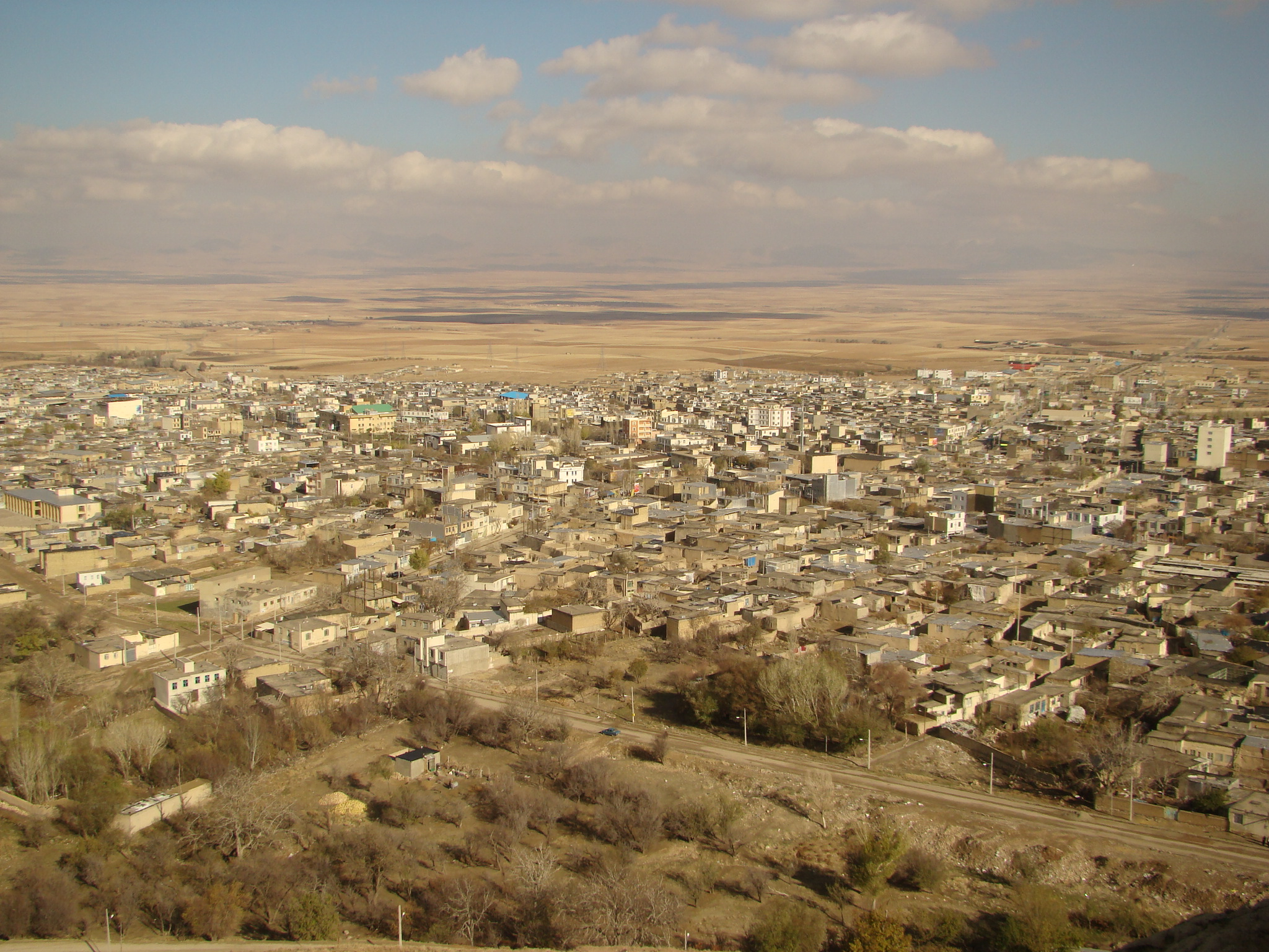 Vista over the Khodabandeh city aka Gheydar